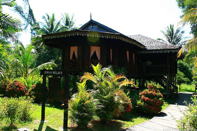 A sarawakian-malay kampung house.